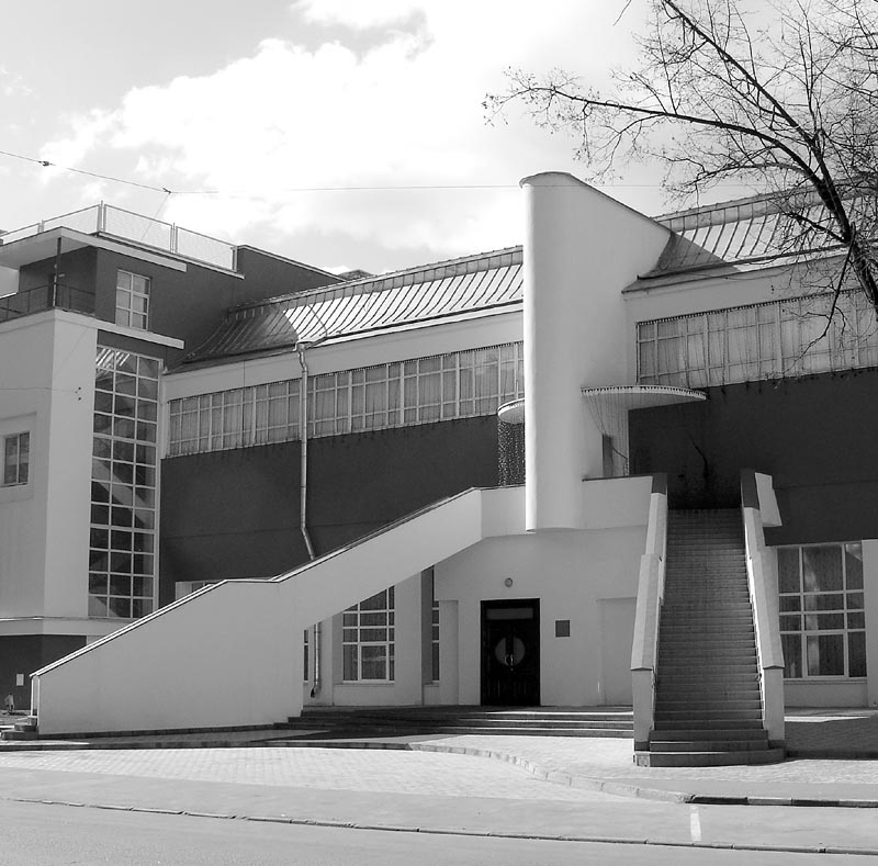 Svoboda Club — entrance stairs. Constructivist architecture by Konstantin Melnikov — in Moscow, Russia.